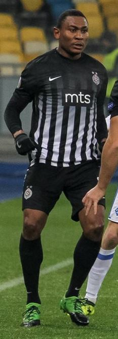 Léandre Tawamba playing for Partizan against Dynamo Kyiv in December 2017